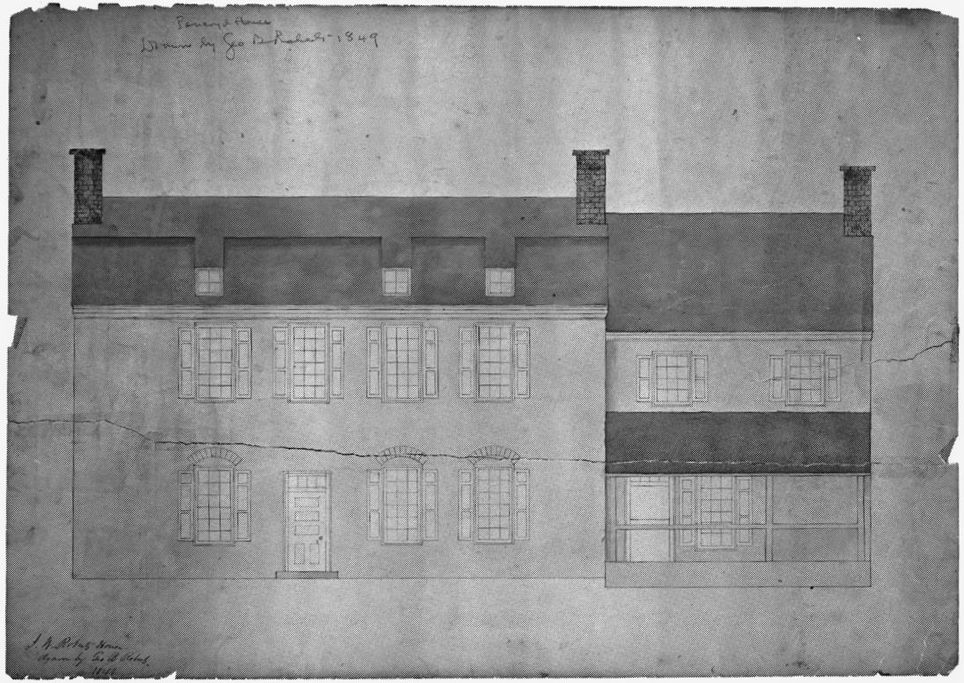 Elevation of Pencoyd (built c.1690), Lower Merion Township, Montgomery County, Pennsylvania.